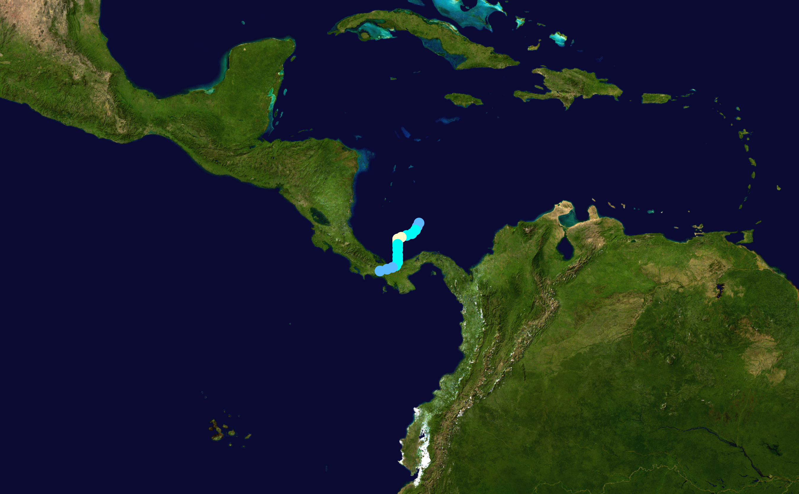 Hurricane Martha (1969) track. Uses the color scheme from the Saffir-Simpson Hurricane Scale.